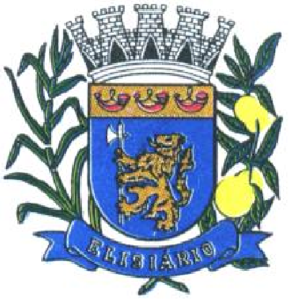 Coat of Arms of the city of Elisiário, São Paulo state, Brazil. Emerson This work is in the public domain in Brazil for one of the following reasons: It is a work published or commissioned by a Brazilian government (federal, state, or municipal) prior to 1983.(Law 3071/1916, art. 662; Law 5988/1973, art. 46; Law 9610/1998, art. 115) It is the text of a treaty, convention, law, decree, regulation, judicial decision, or other official enactment.(Law 9610/1998, art. 8) )